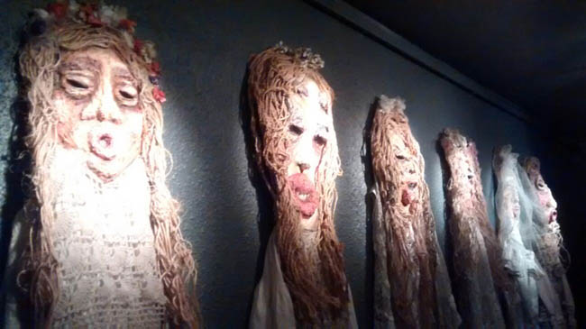 Obra realizada por Virginia Huneeus, título Cucos, fotografía del año 2015.